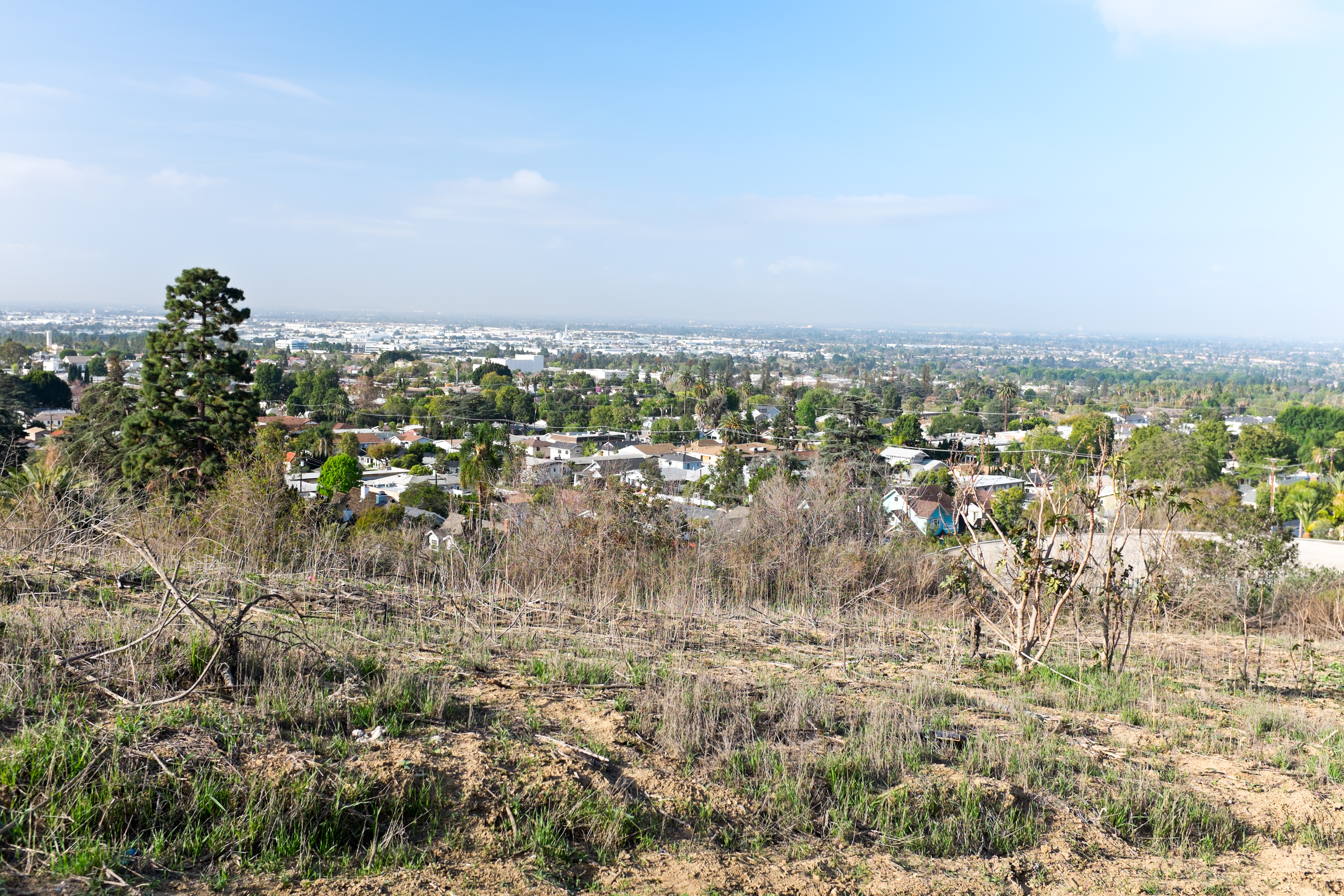 Whittier seen from the Peppergrass Trail in the Hellman Wilderness Park. Located in the Puente Hills, eastern Los Angeles County, California.